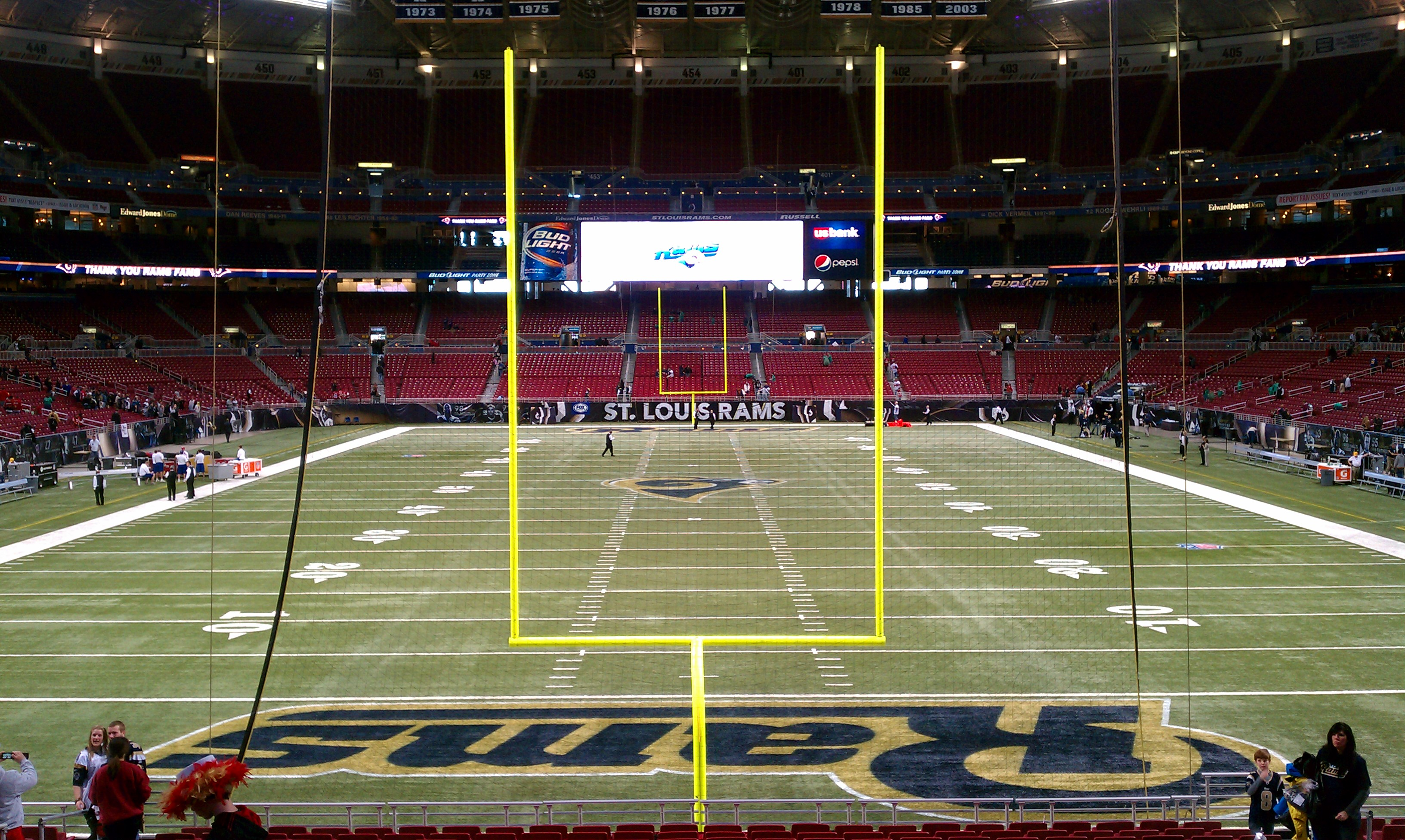 Taken 1/1/2012